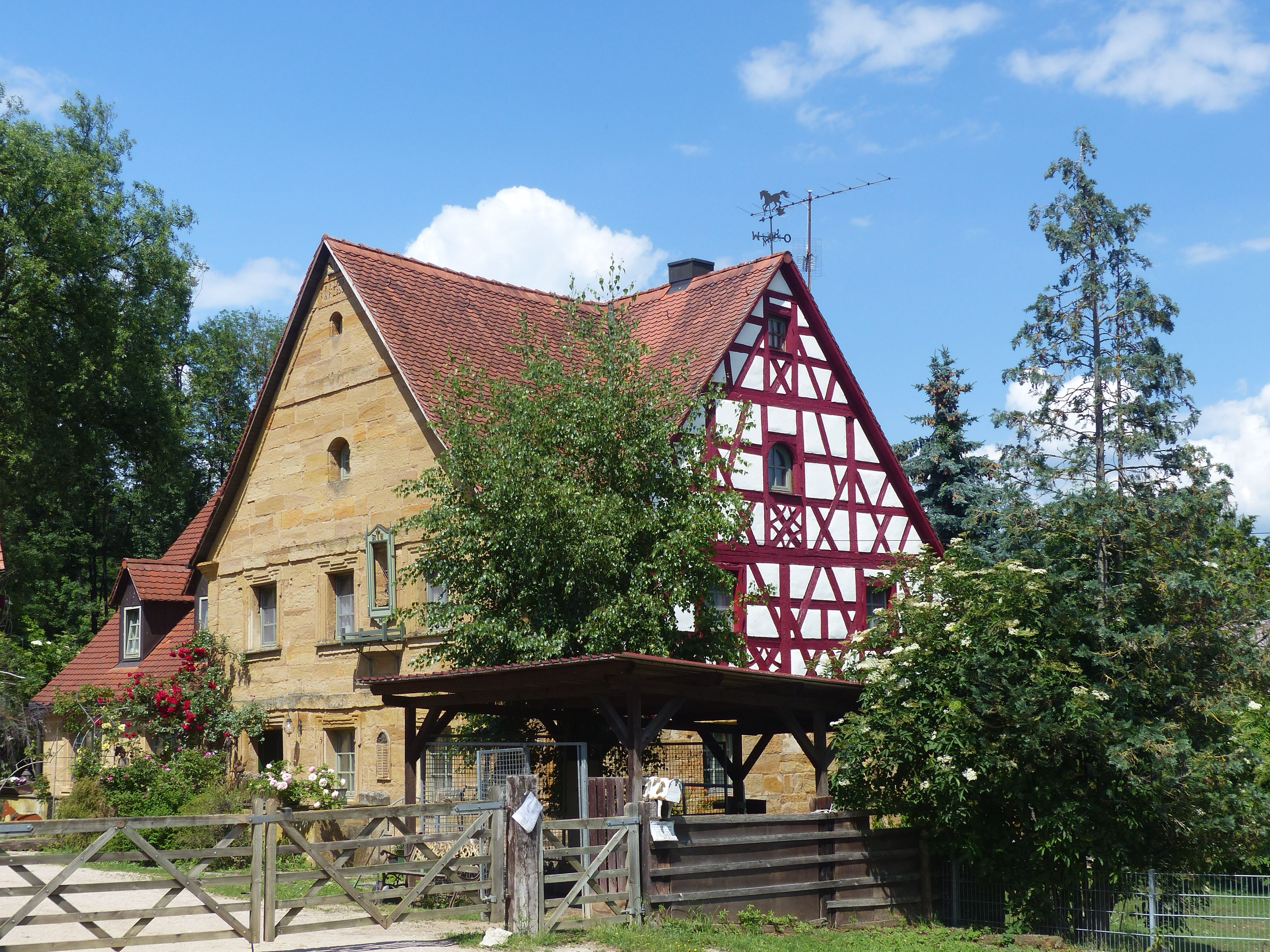 A farmhouse in the church village Rödlas, a district of the municipality of Neunkirchen am Brand.